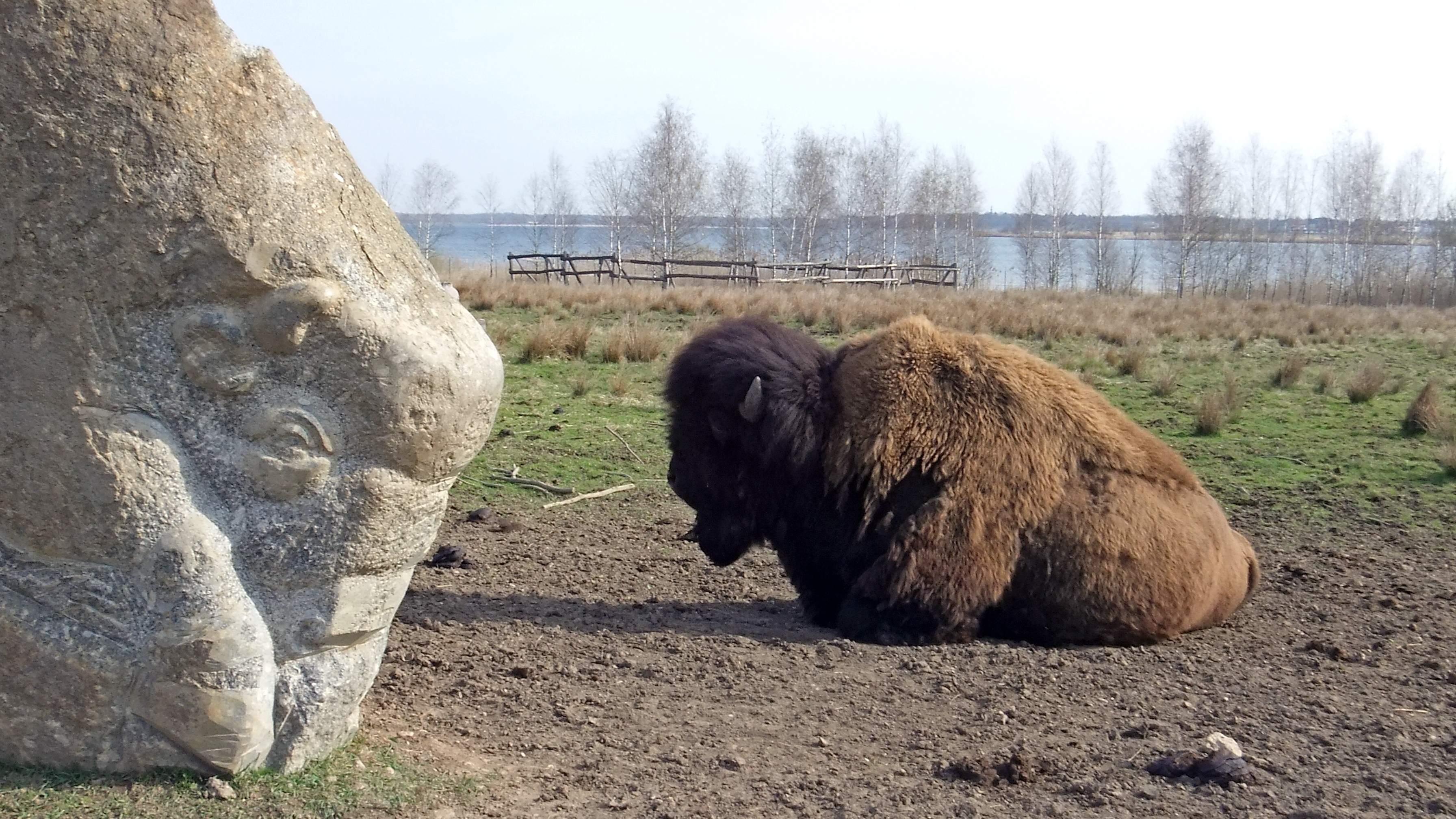 Bison at Lake Cospuden ("Cospudener See") in east german town Zwenkau or Markkleeberg near Leipzig